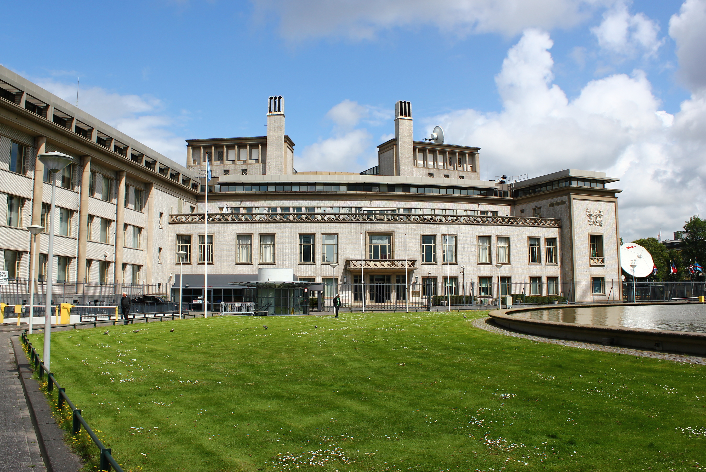 Building of the International Criminal Tribunal for the former Yugoslavia in Scheveningen, The Hague. Hornjoserbsce: Sydło Mjezynarodneho sudnistwa za bywšu Juhosłowjansku w Scheveningenje, Nižozemska.